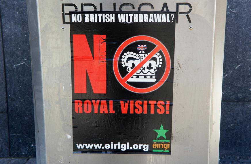 A poster protesting Queen Elizabeth's visit to Ireland (taken in Cork)